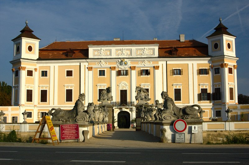 Milotice Castle, Czech republic